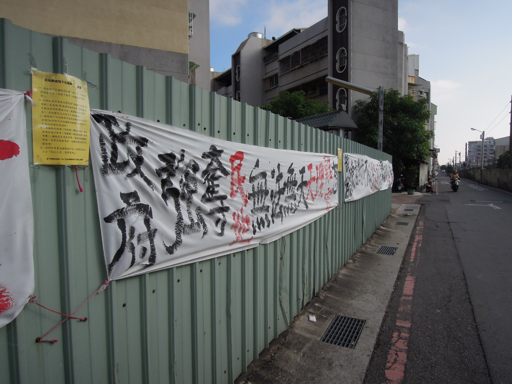 "反鐵會"(fan-tie-huei) accused government of "grabbing" their land since railway constructions